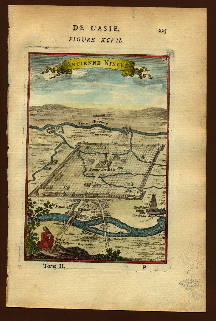 View of ancient Nineveh, Description de L'Universe (Alain Manesson Mallet, 1683).jpg